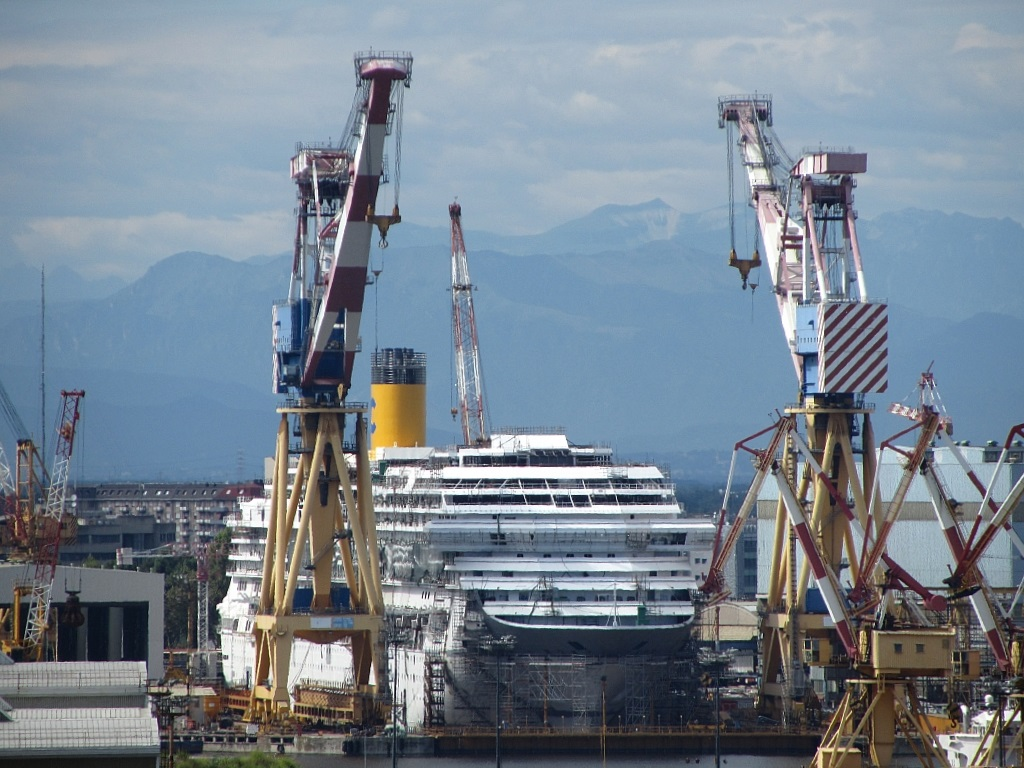 The Costa Favolosa under construction at the Marghera shipyard in Italy 2010